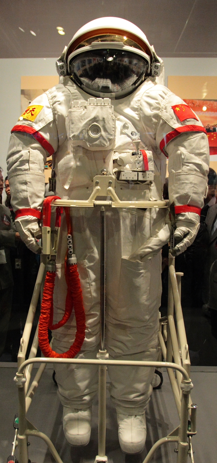 Chinese EVA spacesuit "Feitian". Taken at the Hong Kong Space Museum, 6 Dec 2008.